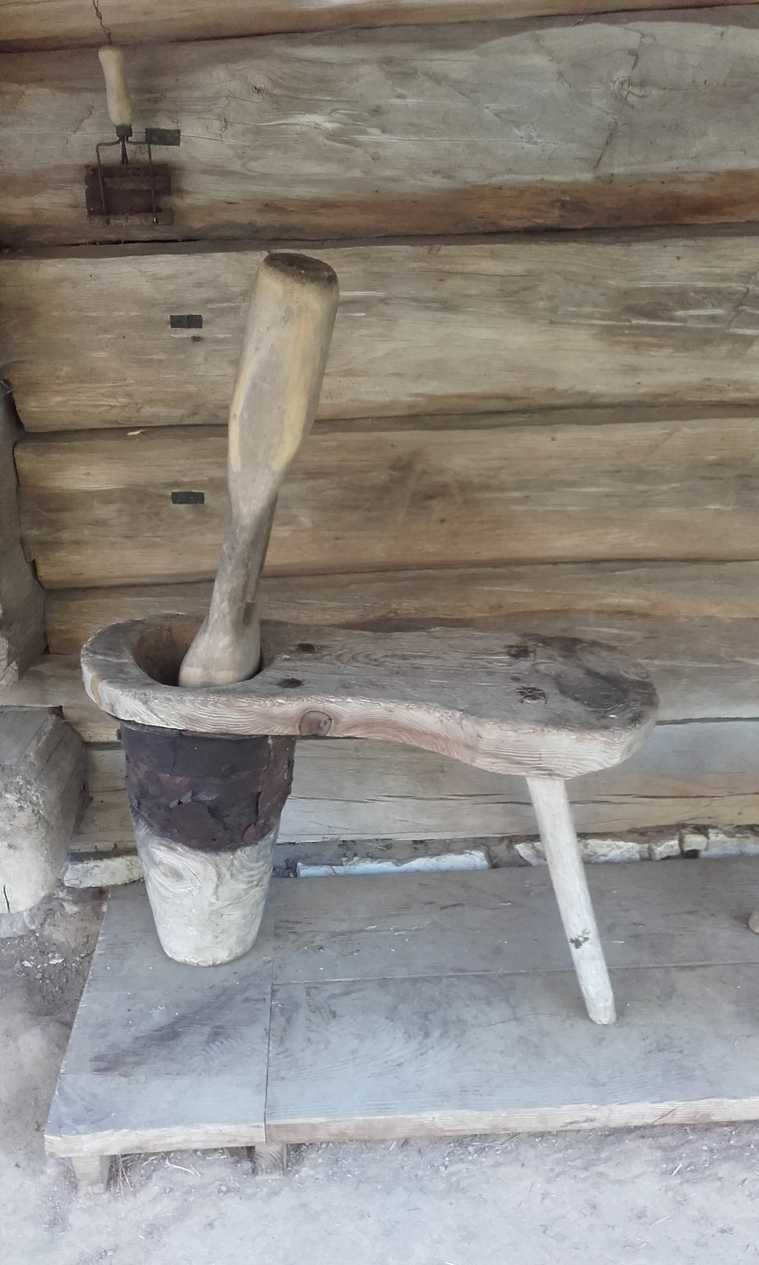 Mortar for groat in Lublin Village Museum